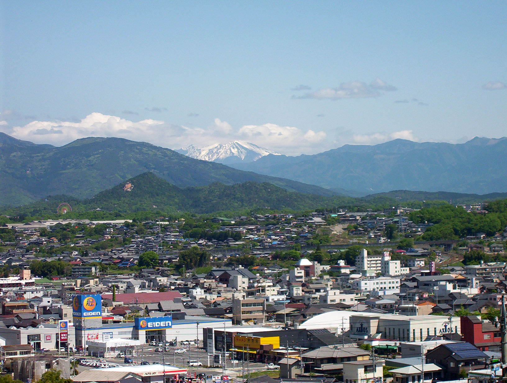 Ena City in Gifu Prefecture. View to the North West of the city center.